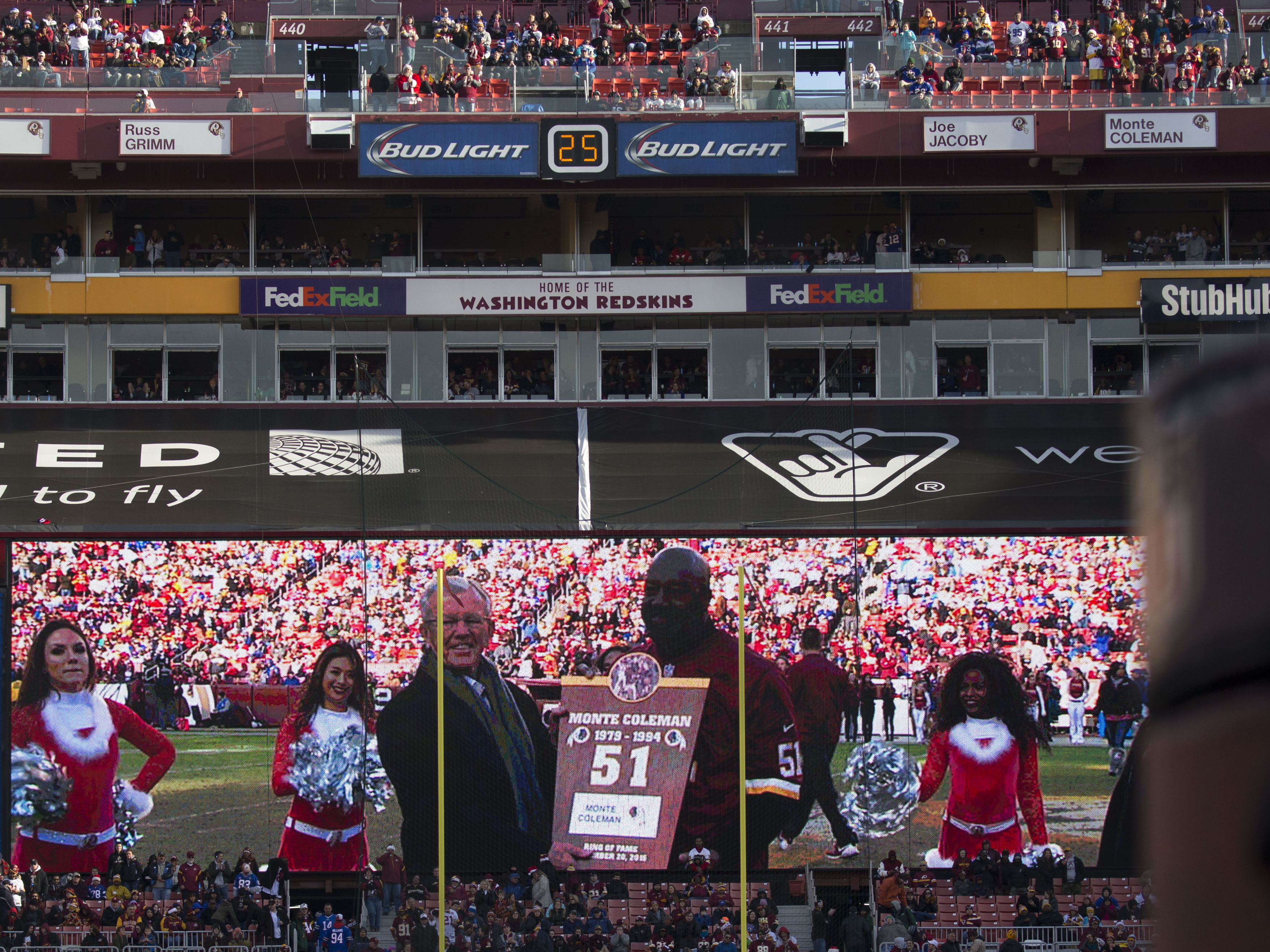 Bills at Redskins 12/20/15